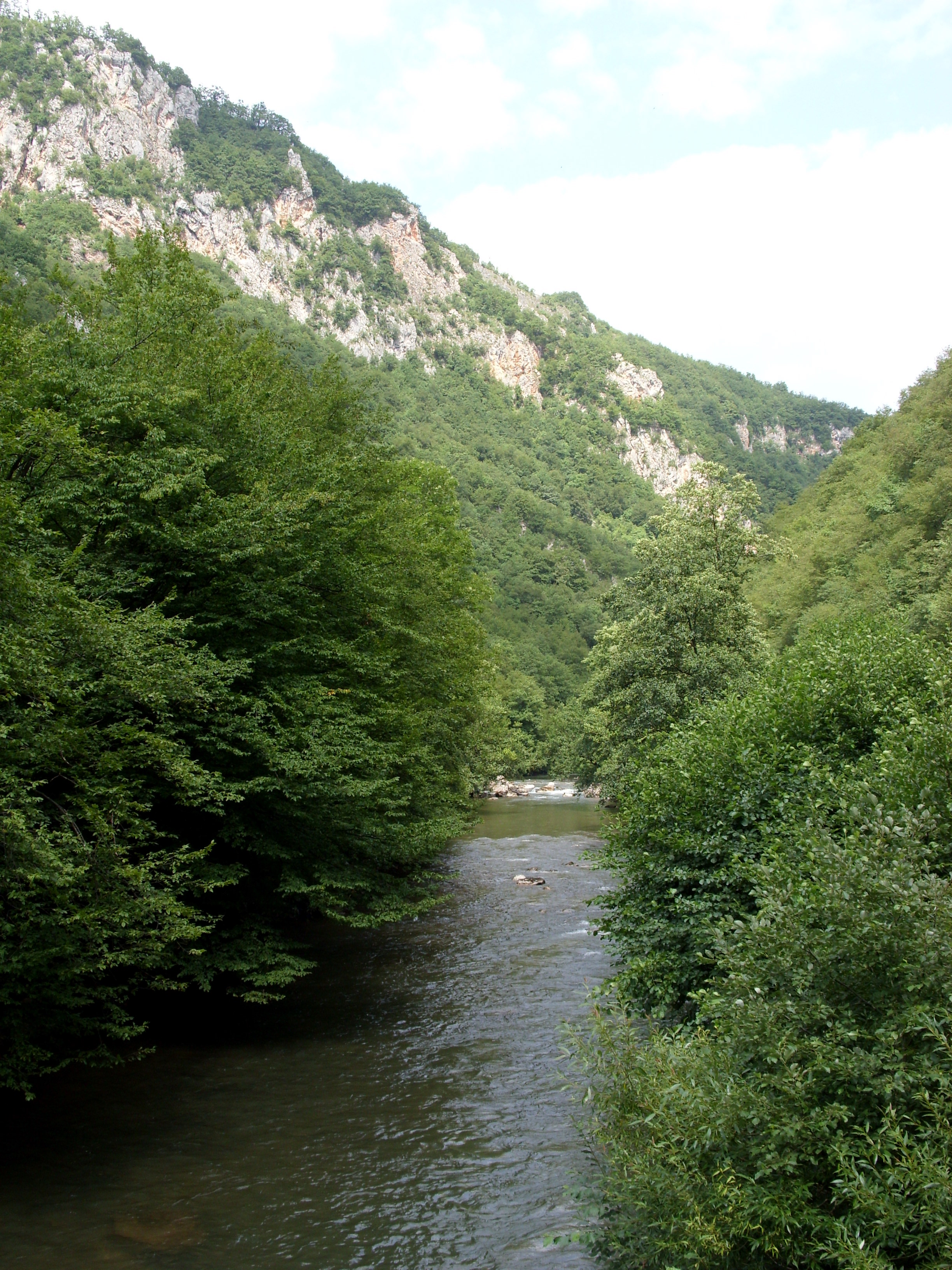 In Željeznica valley south of Sarajevo, Bosnia. Hornjoserbsce: We wudolinje rěki Željeznicy južnje Sarajewa, Bosniska.